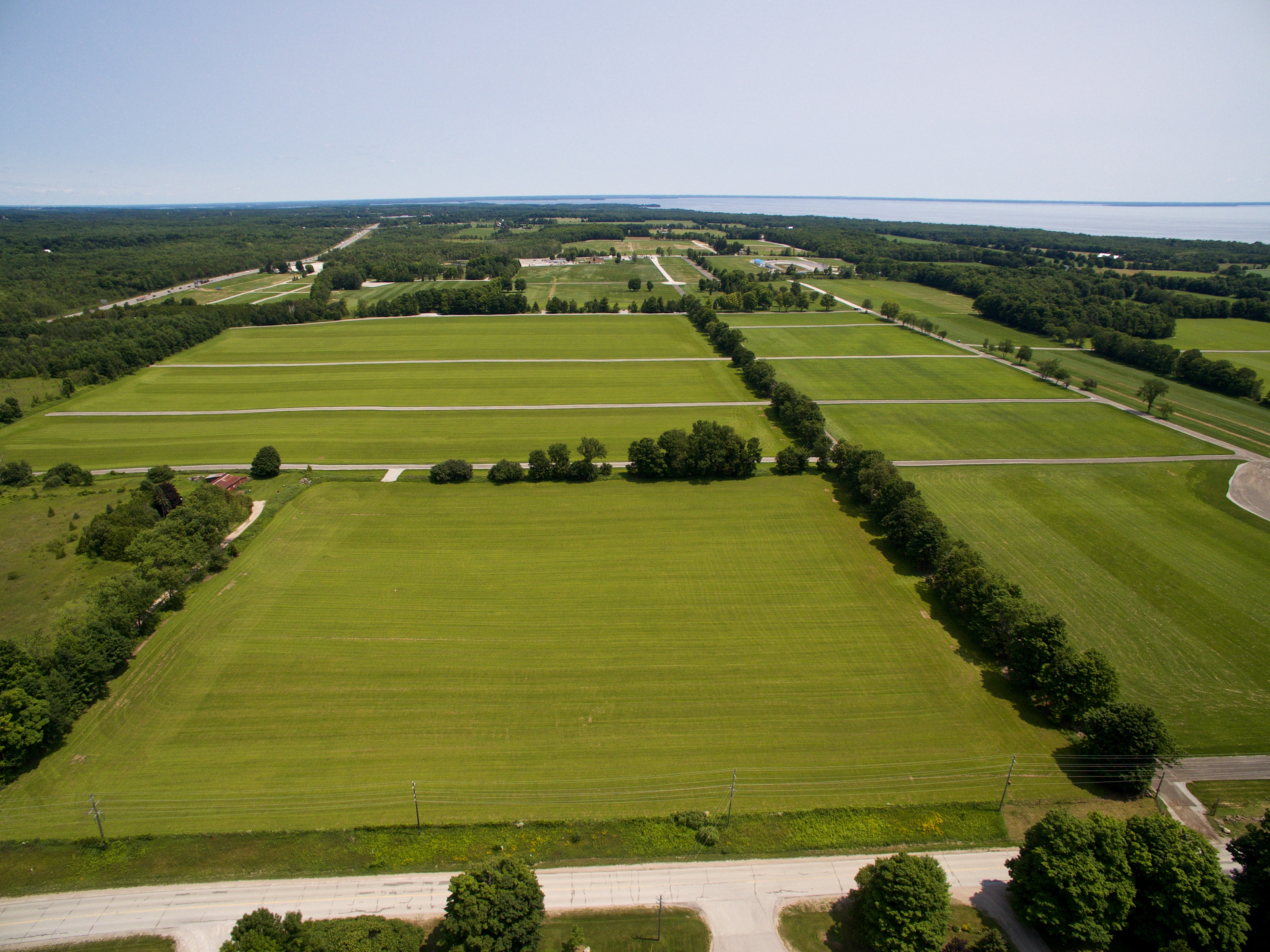 Field of boots and hearts and WayHome music festival